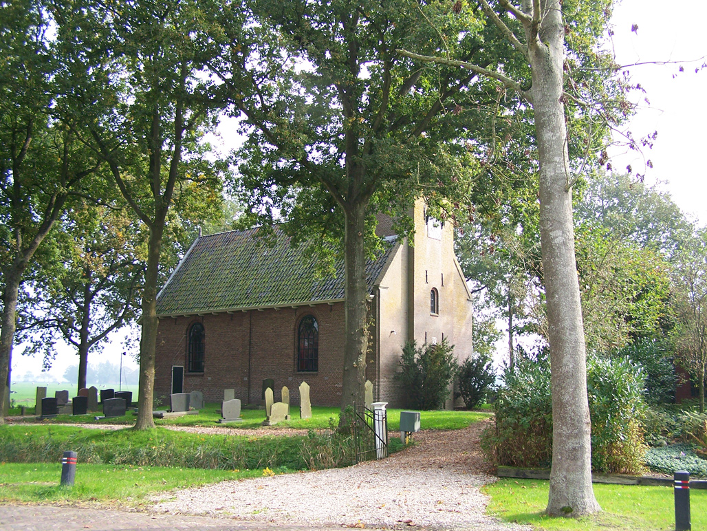 Little Church of Augsbuurt, Netherlands, built in 1782